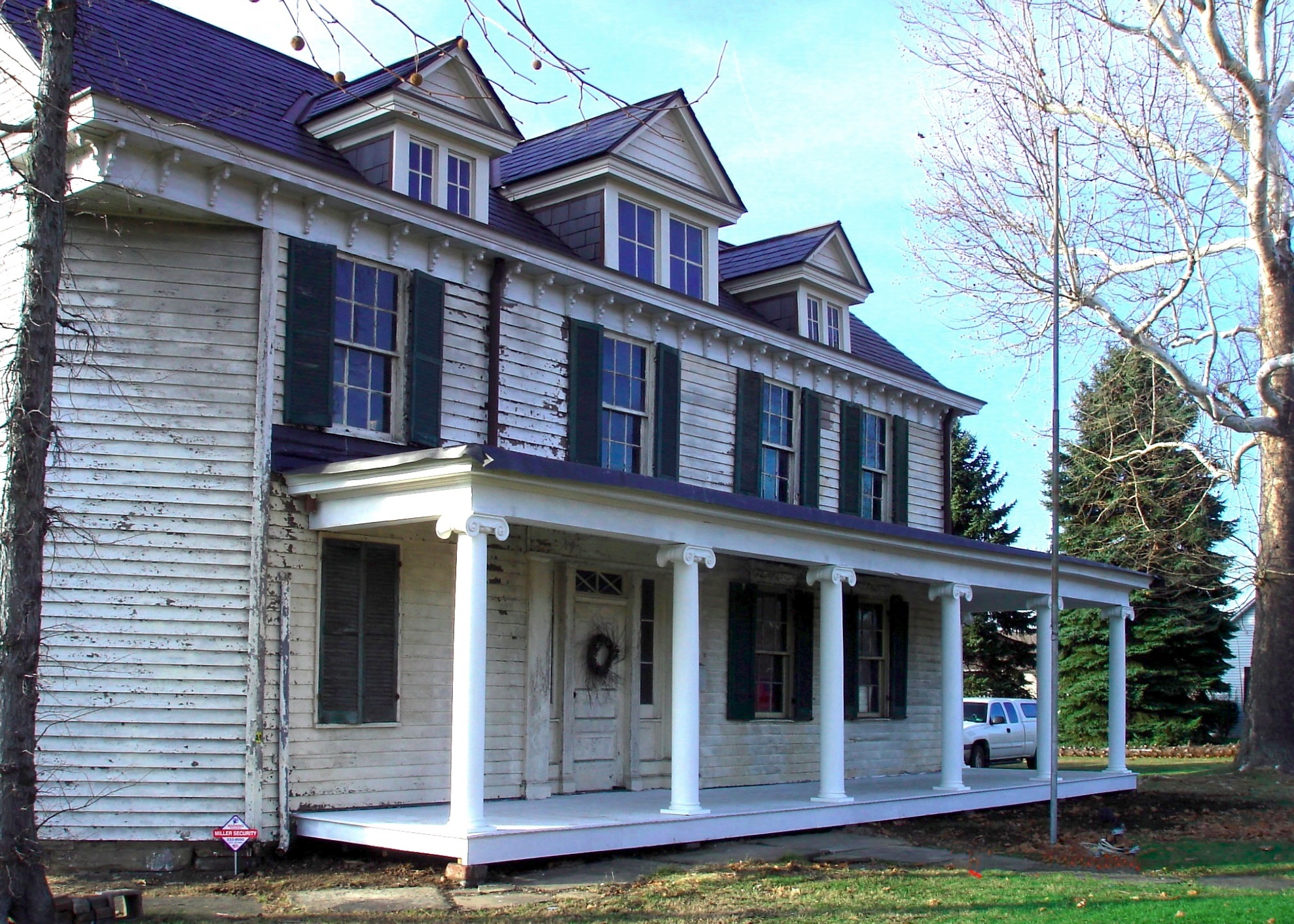 What the house looked like at the time it was donated to the city and leased to the historical society.